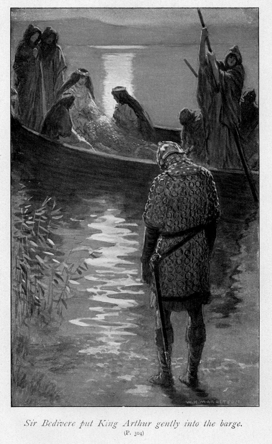 W. H. Margetson's illustration for Legends of King Arthur and His Knights by James Knowles.